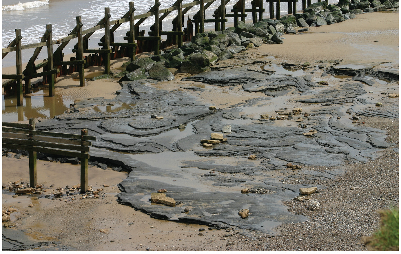 Hominin Footprints from Early Pleistocene Deposits at Happisburgh, UK. Photographs of Area A at Happisburgh: View of Area A from cliff top looking south.